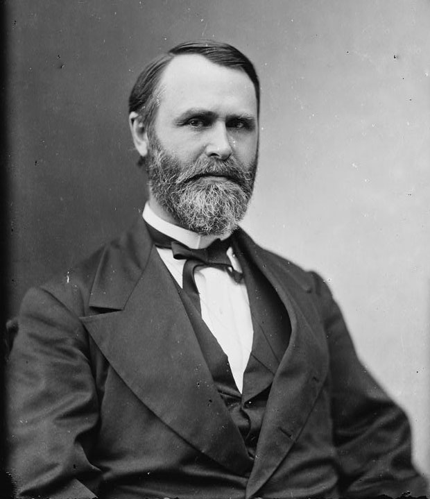 Cox, Jacob D. M.C. Ohio (Secty of Interior in Grant Adm.)